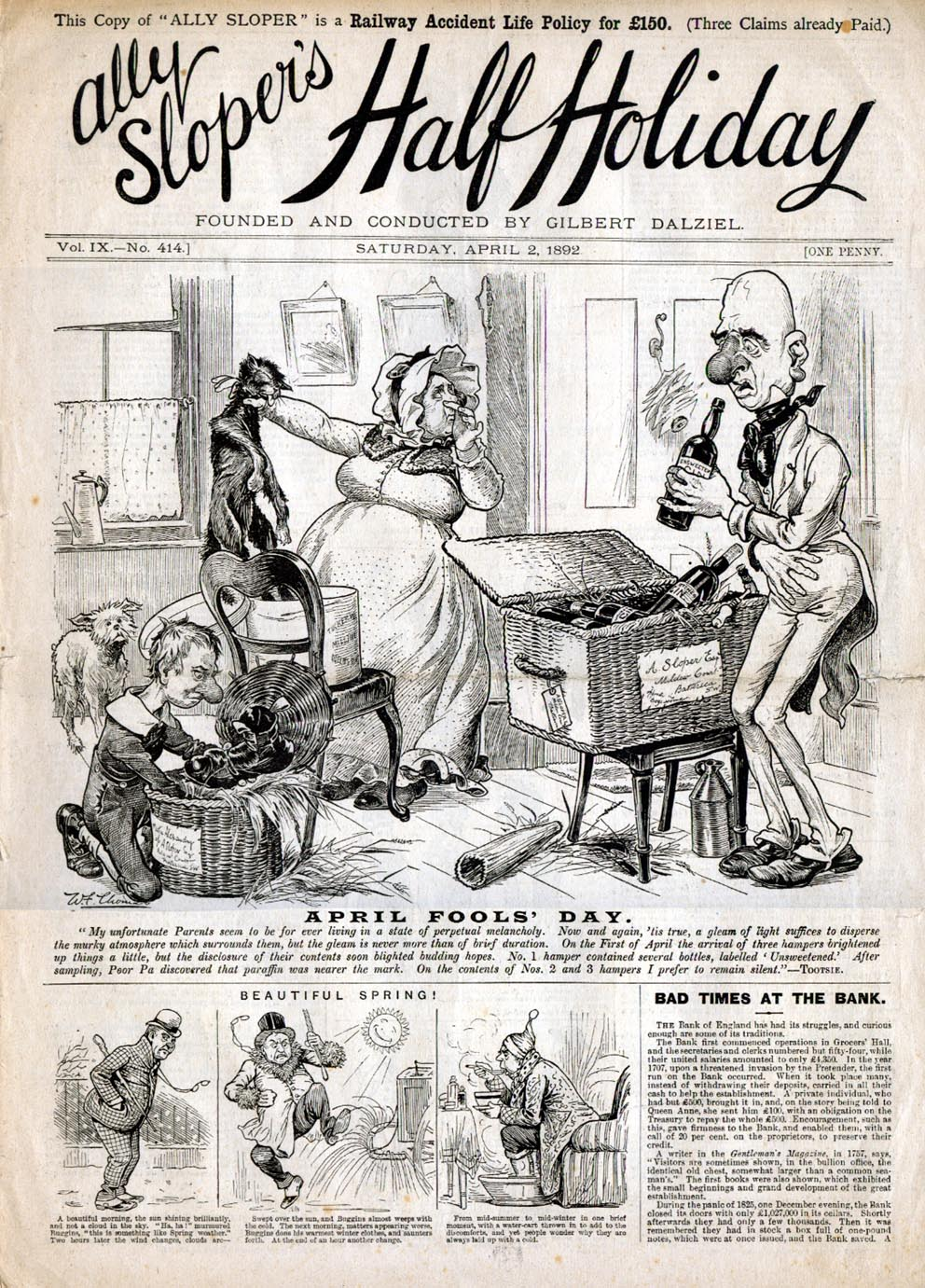 Cover of the April, 2nd 1892 Ally Sloper's Half Holiday. Drawing of Ally by W. Fletcher Thomas.